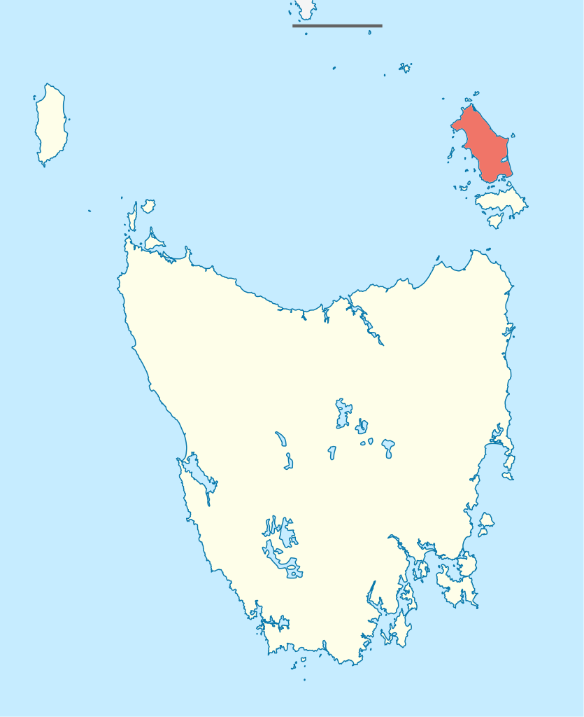 Part of a series of locator maps for Islands of Tasmania Based on File:Australia_Tasmania_location_map_blank.svg